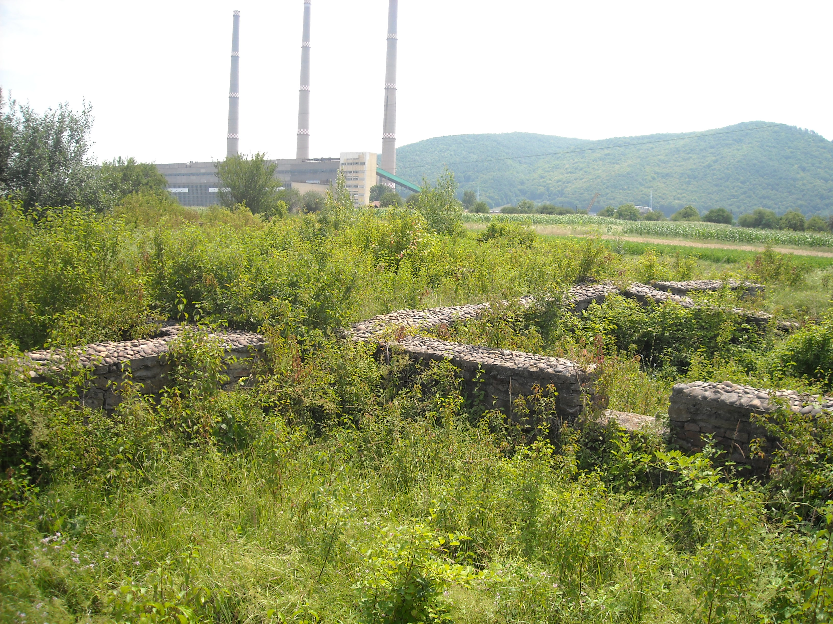 Micia Roman castrum